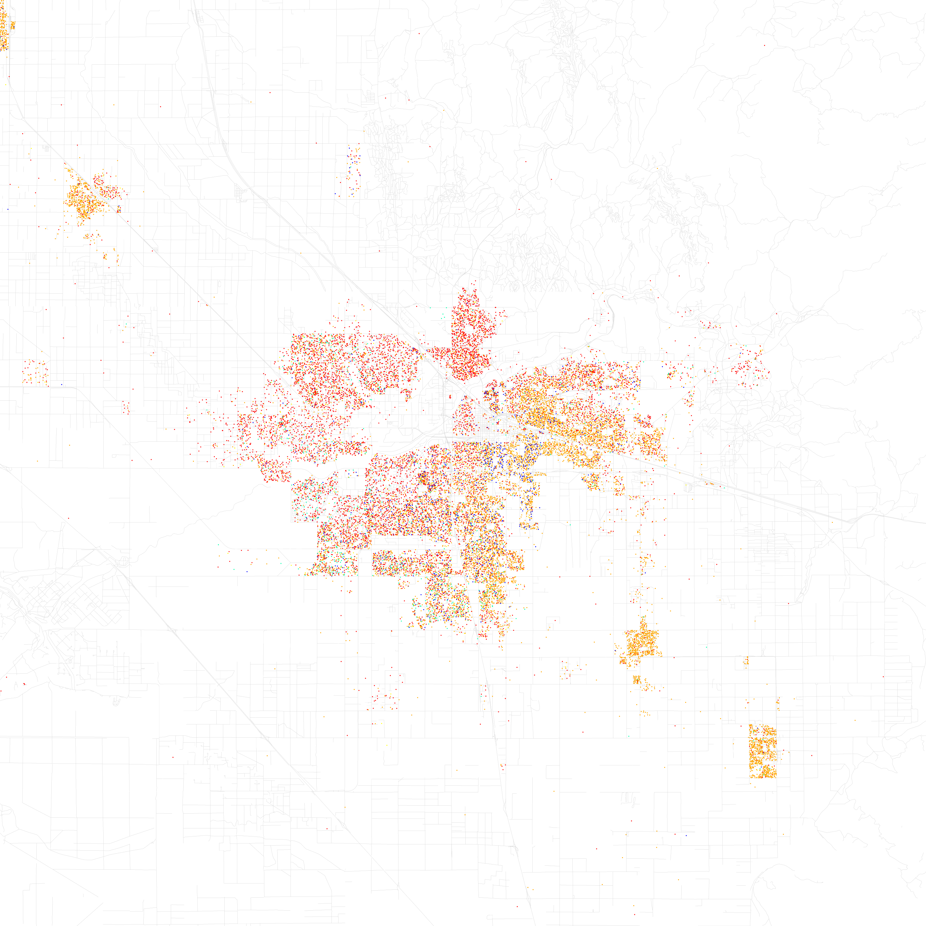 Maps of racial and ethnic divisions in US cities, inspired by Bill Rankin's map of Chicago, updated for Census 2010. Red is White, Blue is Black, Green is Asian, Orange is Hispanic, Yellow is Other, and each dot is 25 residents. Data from Census 2010. Base map © OpenStreetMap, CC-BY-SA